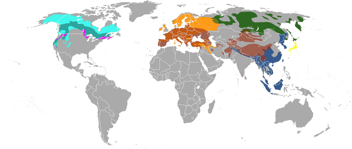 Ranges of species in the genus Martes (derived from specific ranges): M. americana = cyan & teal, M. flavigula = dark blue & sepia, M. foina = rust, brown & sepia, M. gwatkinsii, M. martes = orange, rust & grass-green, M. melampus = yellow, M. pennanti = purple & teal, M. zibellina = green & grass-green